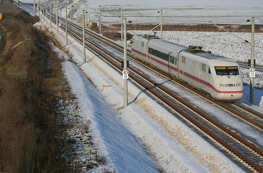 ICE-S near Wettstetten on the Nuremberg–Ingolstadt high-speed line